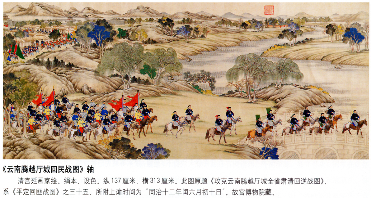 A battle of the Panthay Rebellion (1856–1873) from the set "Victory over the Muslims", set of twelve paintings in ink and color on silk,136.0x310.0 cm. Palace Museum, Beijing.